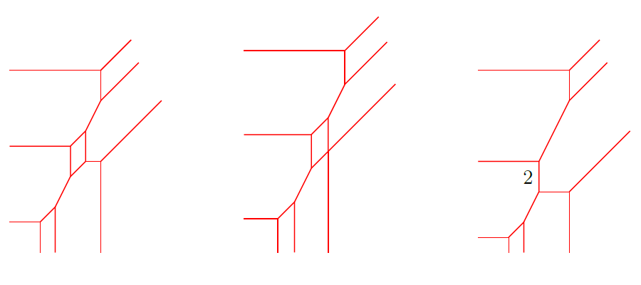 Some tropical curves of the third order. Number "2" denotes the weight of the edge.